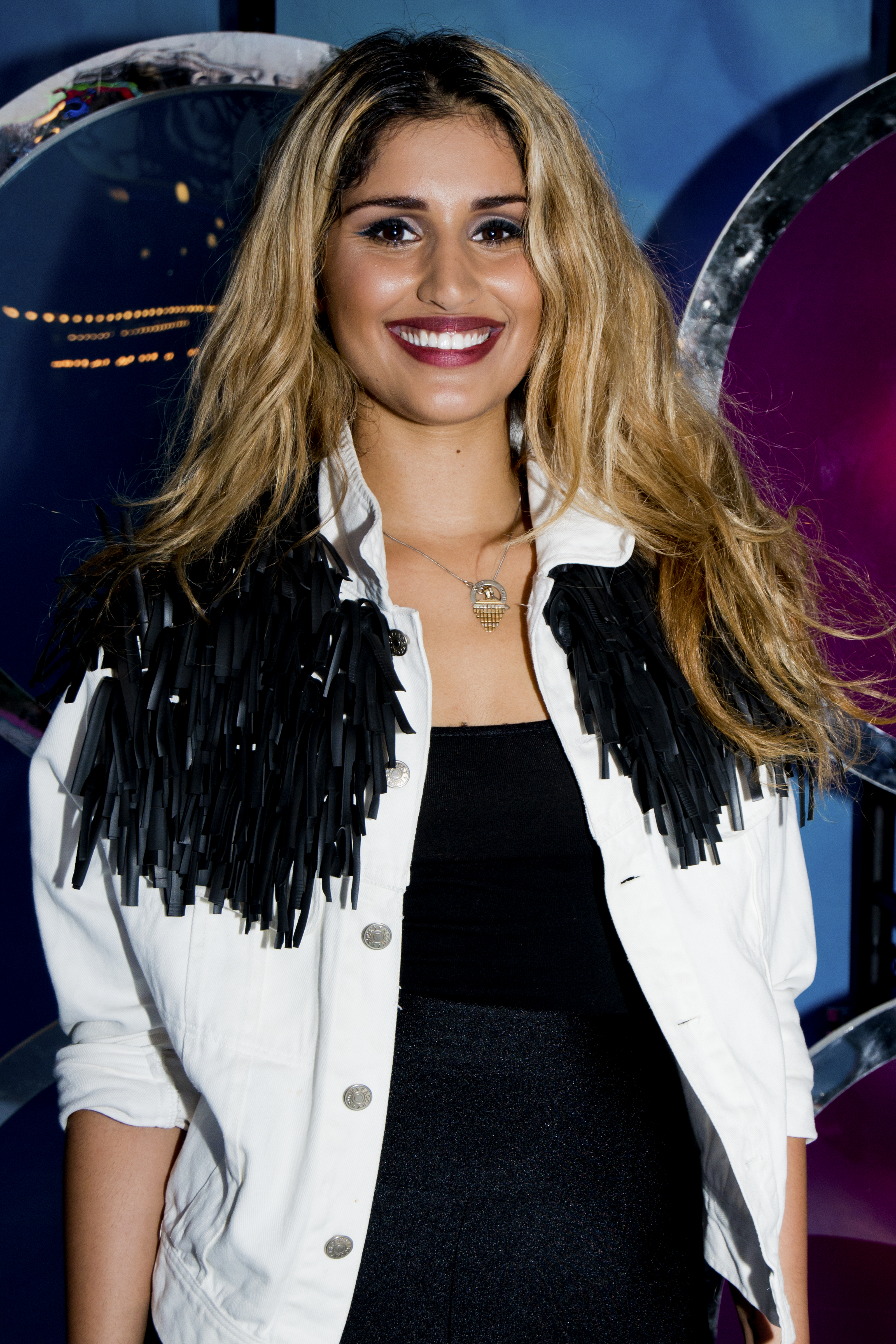 Janet Leon at Sommarkrysset, Gröna Lund (Stockholm)